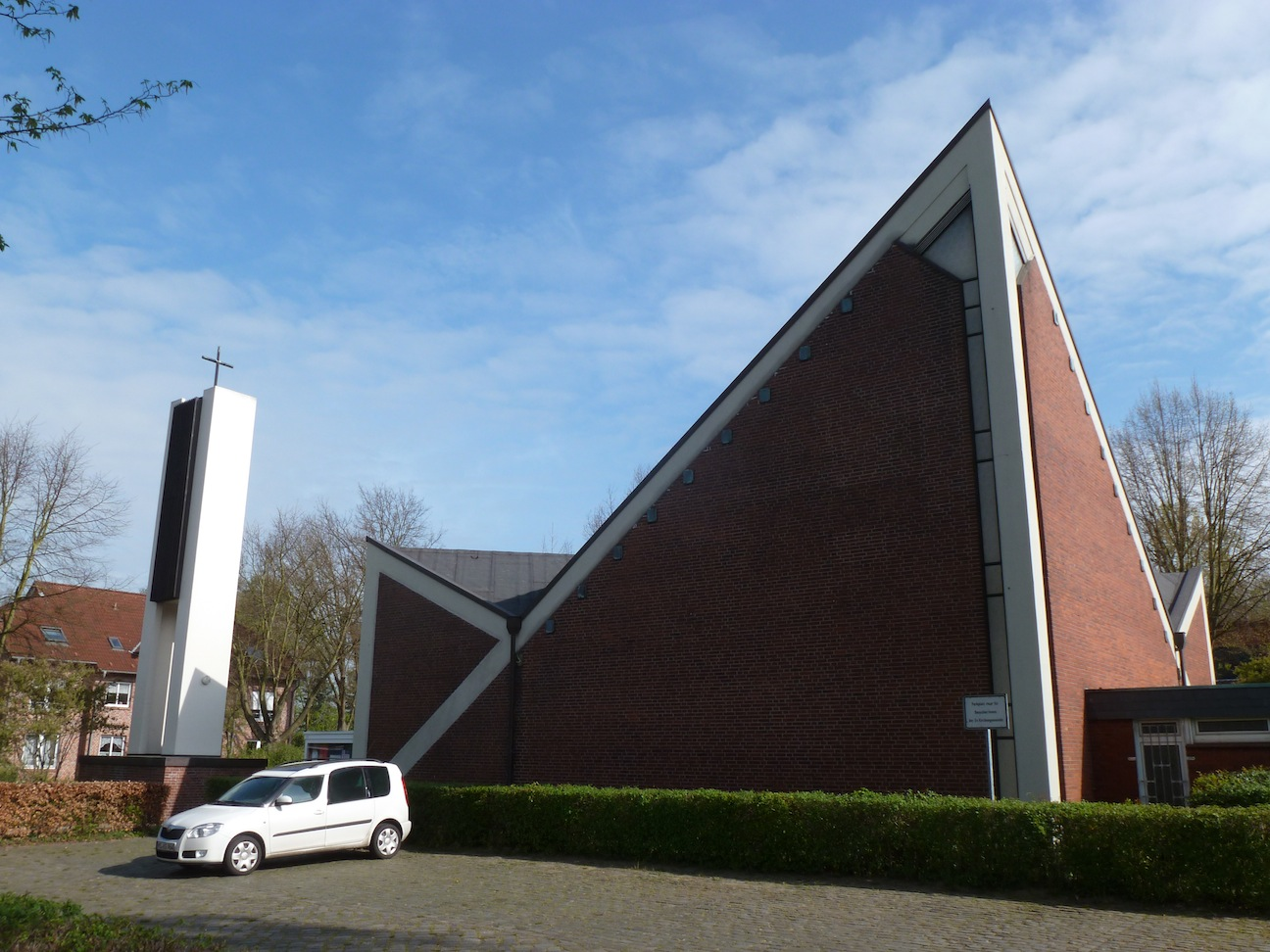 Martin-Luther-Kirche Münster